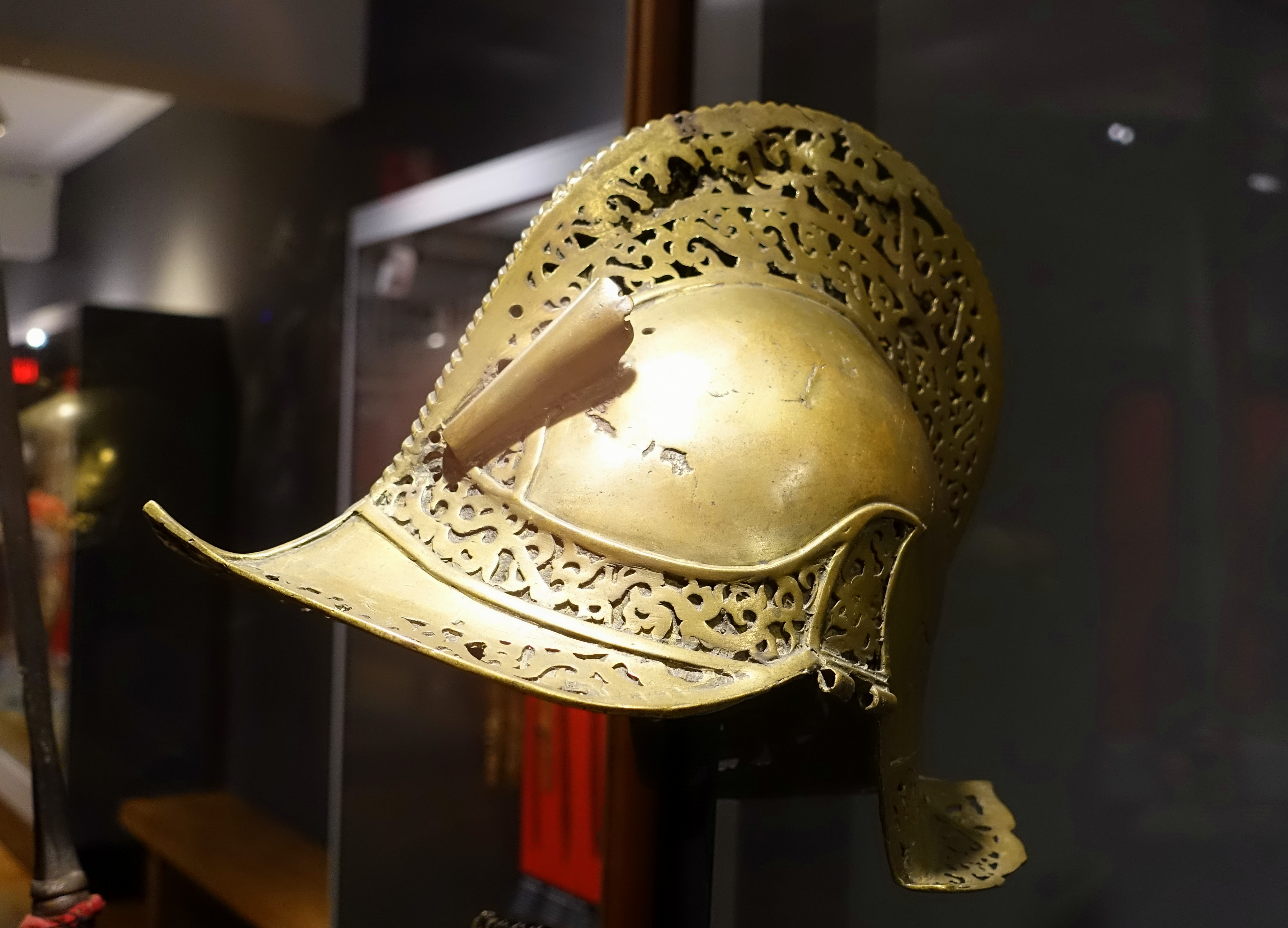 Exhibit from the Pacific Collection, Peabody Museum, Harvard University, Cambridge, Massachusetts, USA. Photography was permitted without restriction; exhibit is old enough so that it is in the public domain.